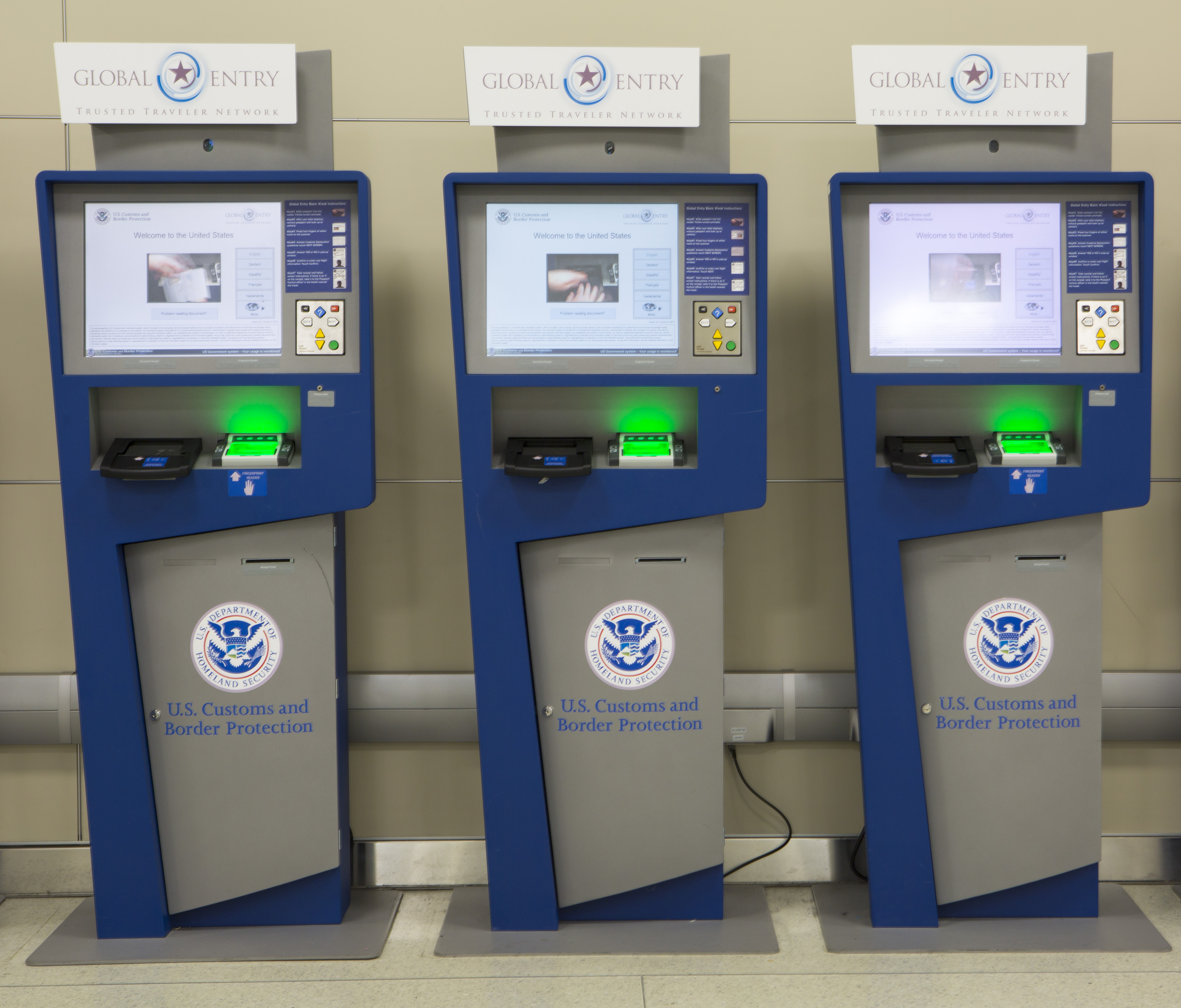 Global Entry and APC Kiosks, located at international airports across the nation, streamline the passenger's entry into the United States. Photo by James Tourtellotte